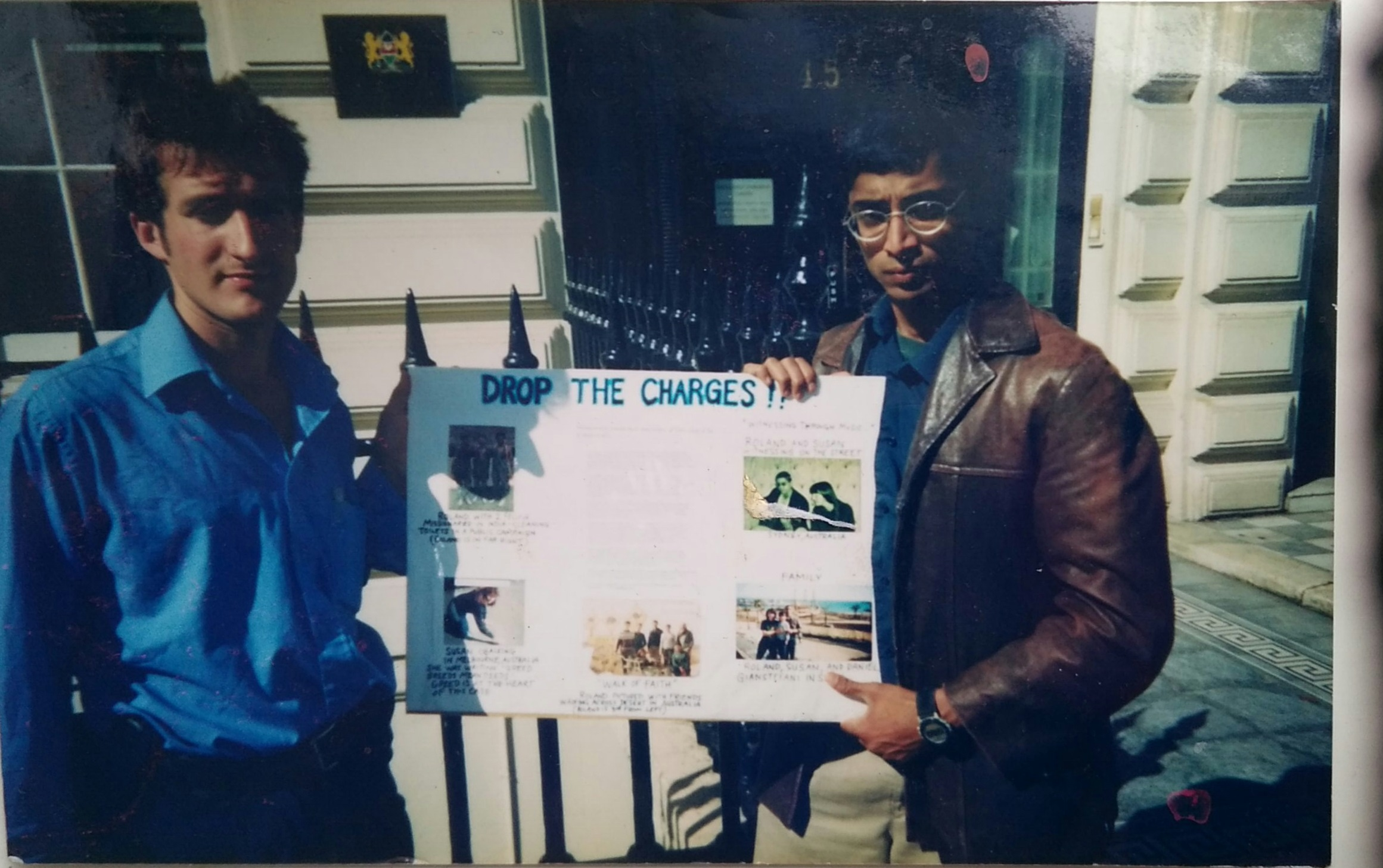 Taken when Roland and Susan Gianstefani were charged with abducting a woman and her child in Nairobi and members of Jesus Christians were campaigning for the charges to be dropped. The charges were eventually dropped by the Kenyan Attorney General at the trial in August 2005.